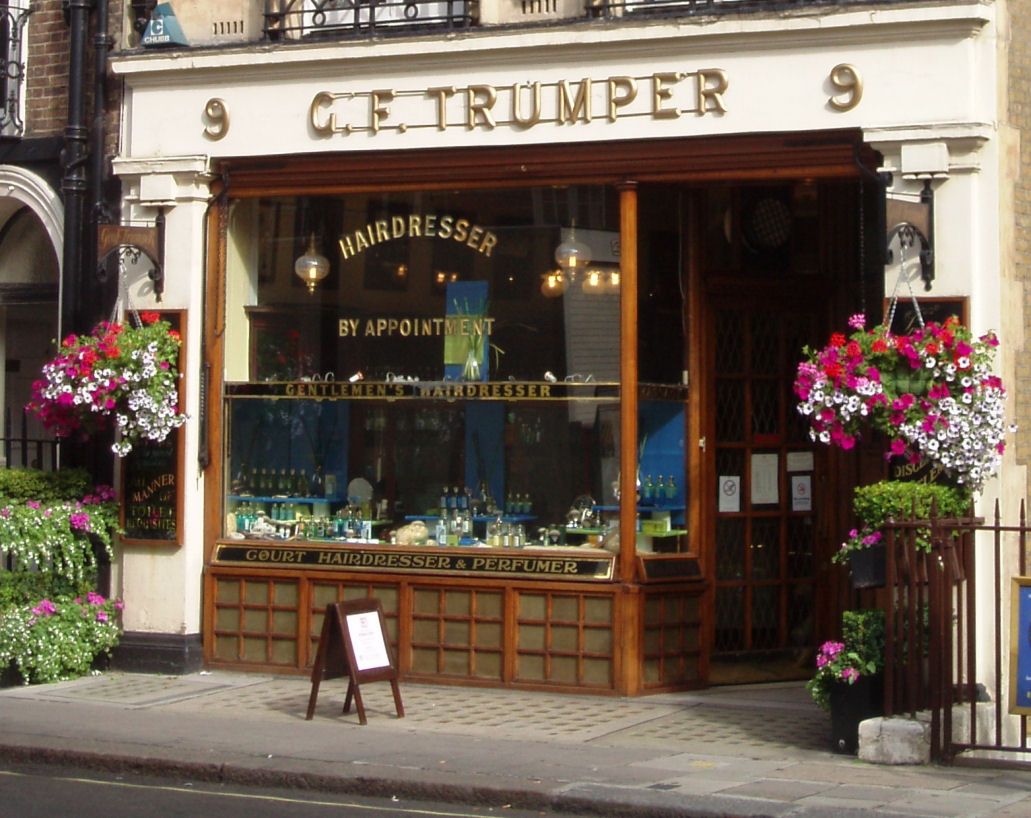 Geo.F. Trumper shop in Curzon Street, London. Hercule Poirot buys some perfume at G.F. Trumper in Mayfair before going to the Chelsea Flower Show in the Agatha Christie's Poirot episode "How Does Your Garden Grow?".